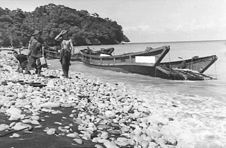 2 Wrecked Japanses Barges at Scarlet Beach, Finschhafen. 37 dead Japansese were counted. Japanese landed at Scarlet Beach by surprise attack on Oct 17, 1943.